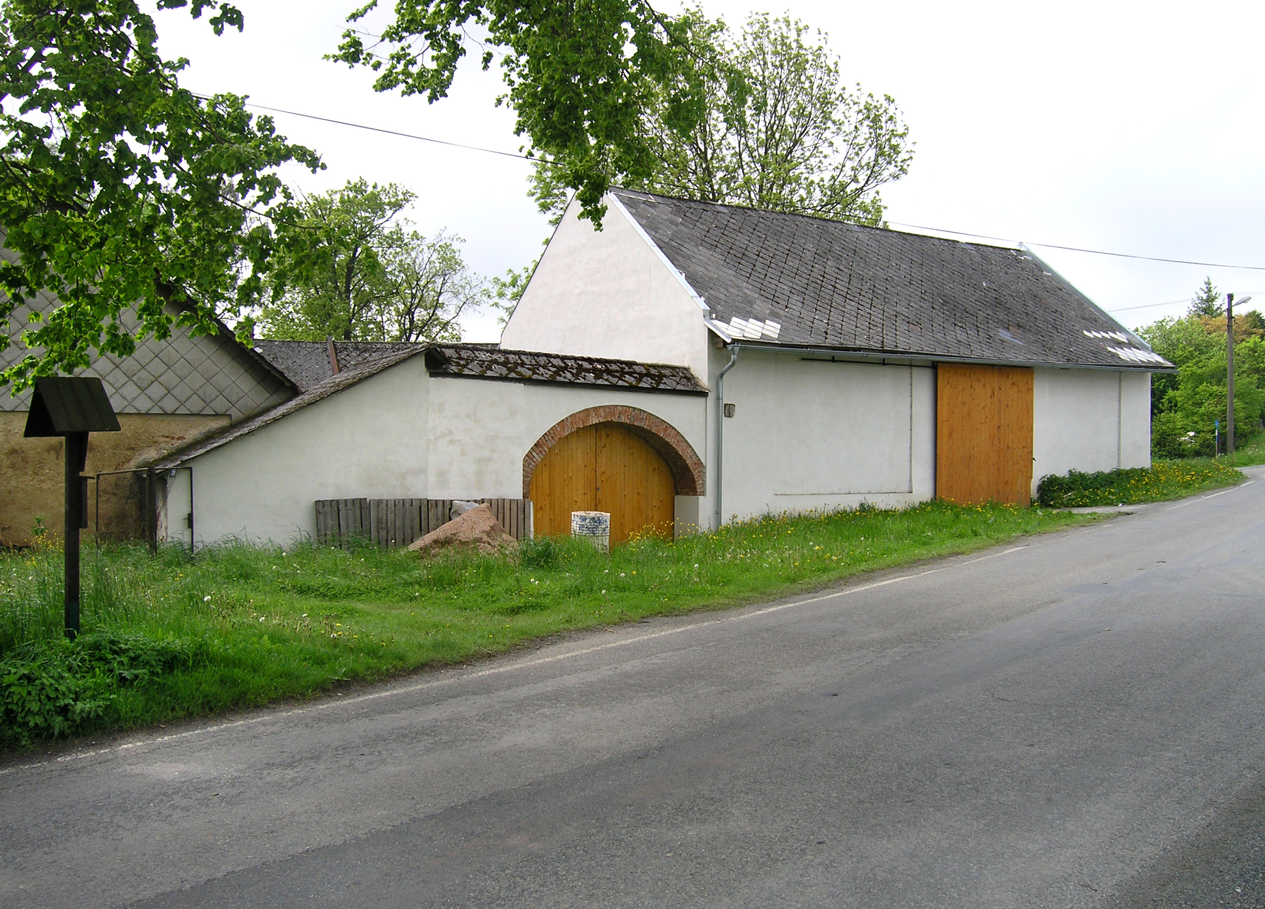 East part of Svinný, part of Chotěboř town, Czech Republic